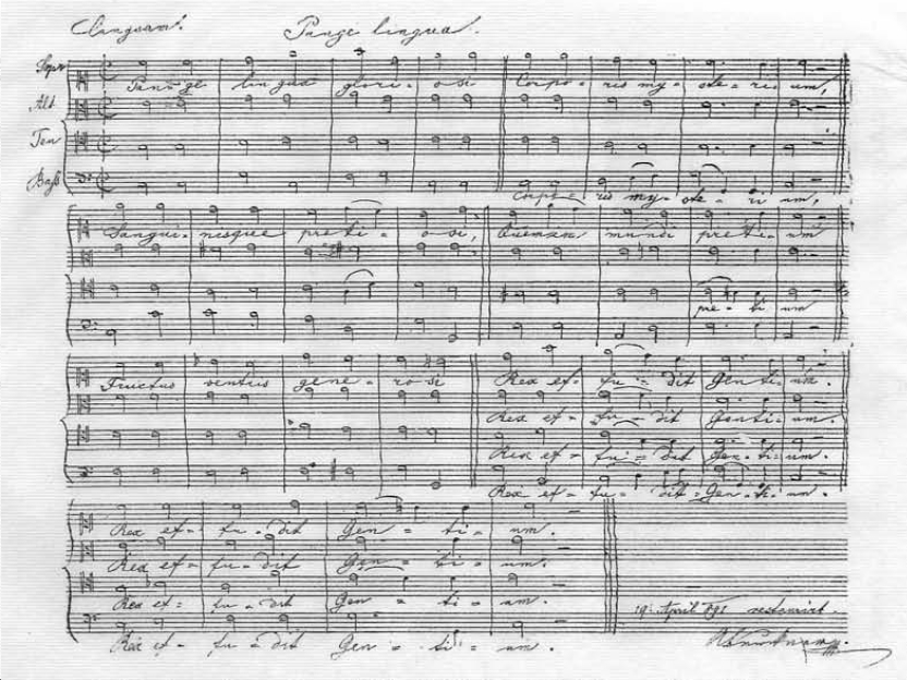 Bruckner's autograph manuscript of Pange lingua (1891)